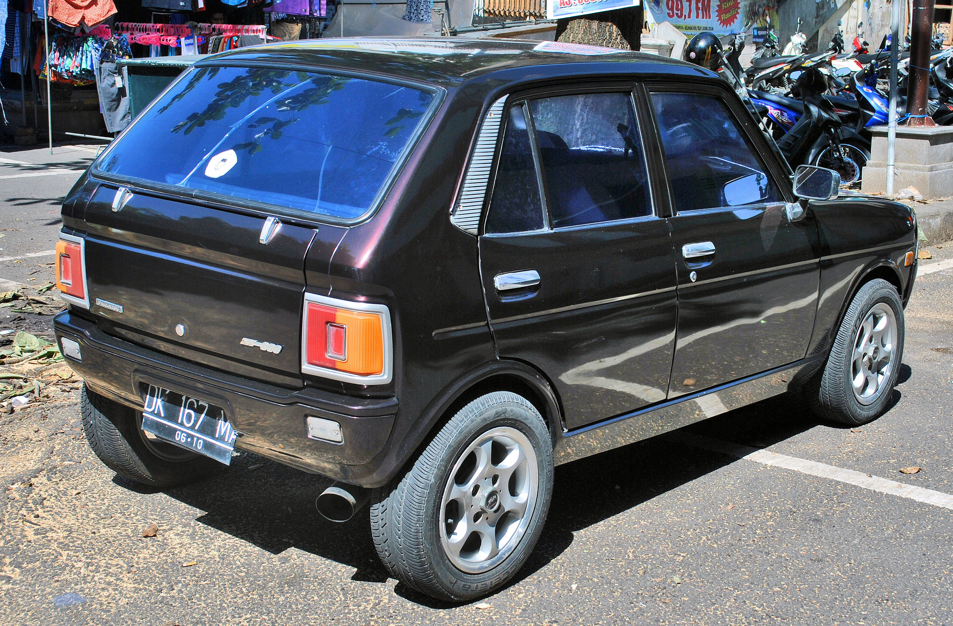 Rear side view of Daihatsu 360 (also known as Fellow Max) spotted near local store in Semarapura, Bali, Indonesia. Very rare in Bali.